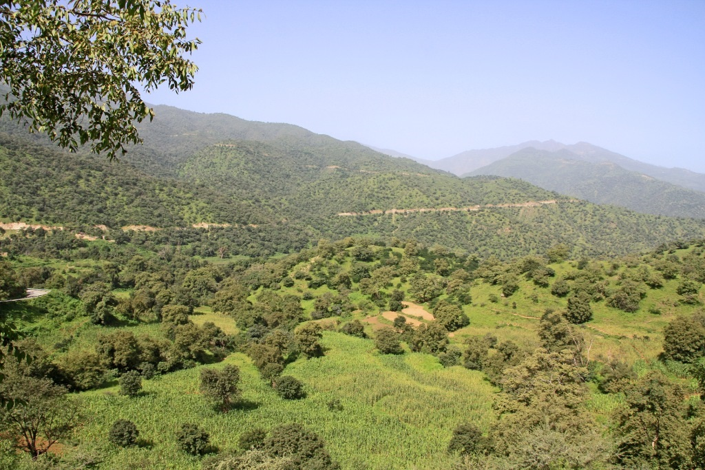 Eritrean landscape near Massawa